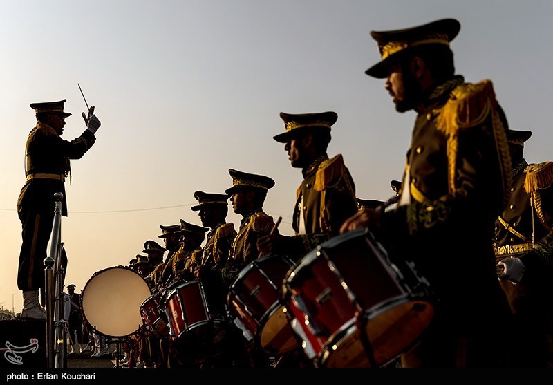 TEHRAN (Tasnim) – Troops from different units of the Iranian Army attended a commemorative parade in Tehran on Wednesday morning after a presidential speech to celebrate the Army Day and the Ground Force Day.